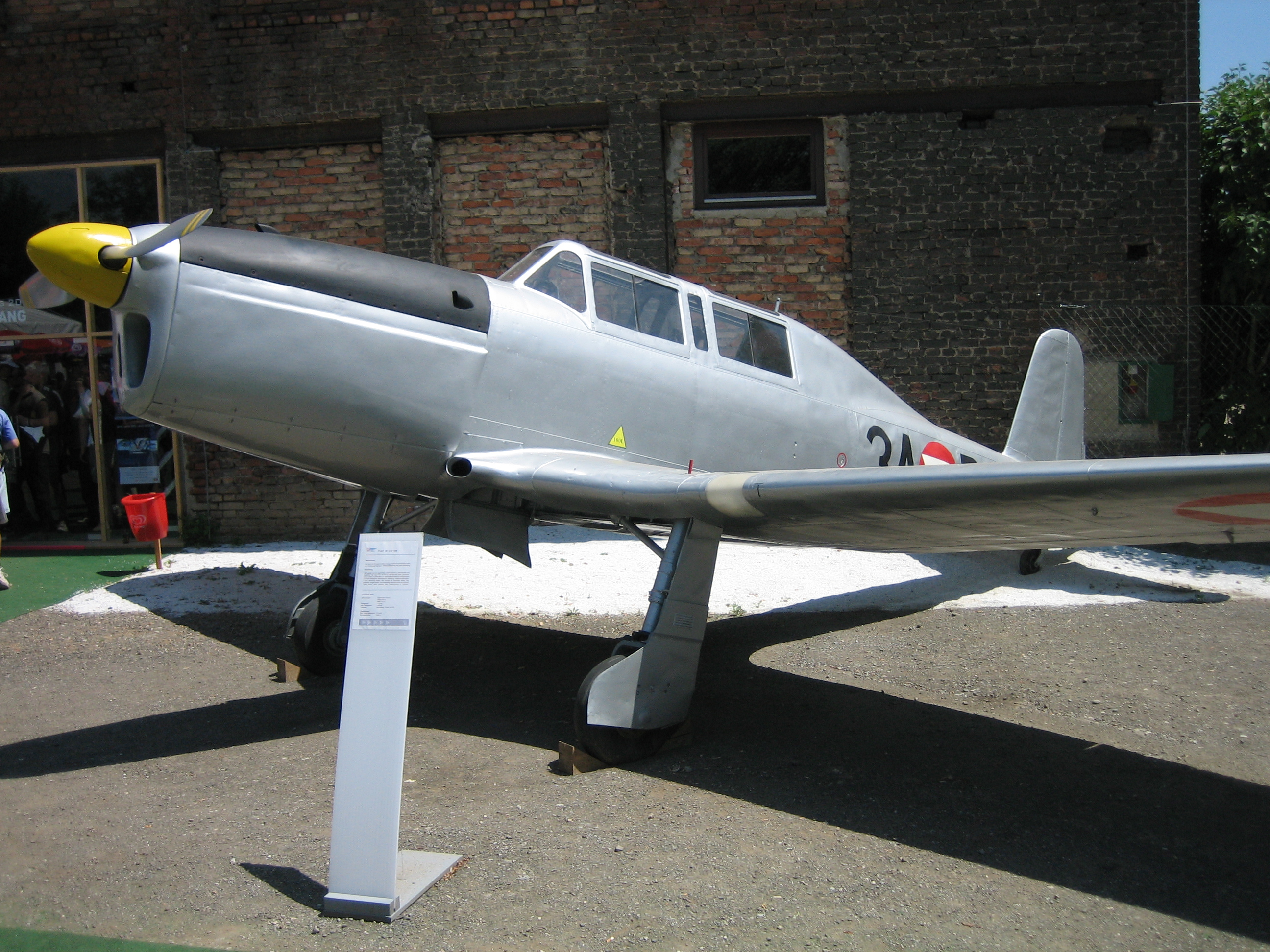 Alenia G.46-4B '3A-B ' of the 'Flight School' of the Austrian Air Force; the non-airworthy example is displayed at the 'Military Aviation Exhibition' at Hinterstoisser AB